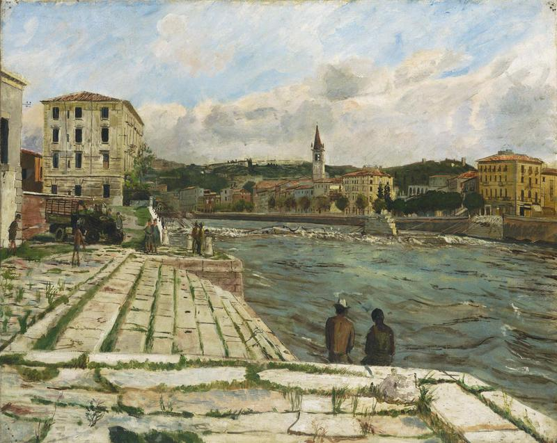 The Remains of Ponte Navi, Verona image: Looking up stream from the embankment and across to buidlings on the opposite bank. The remains of a supporting pier are visible in the river. A couple sit on steps by the riverside, others are gathered around a van.